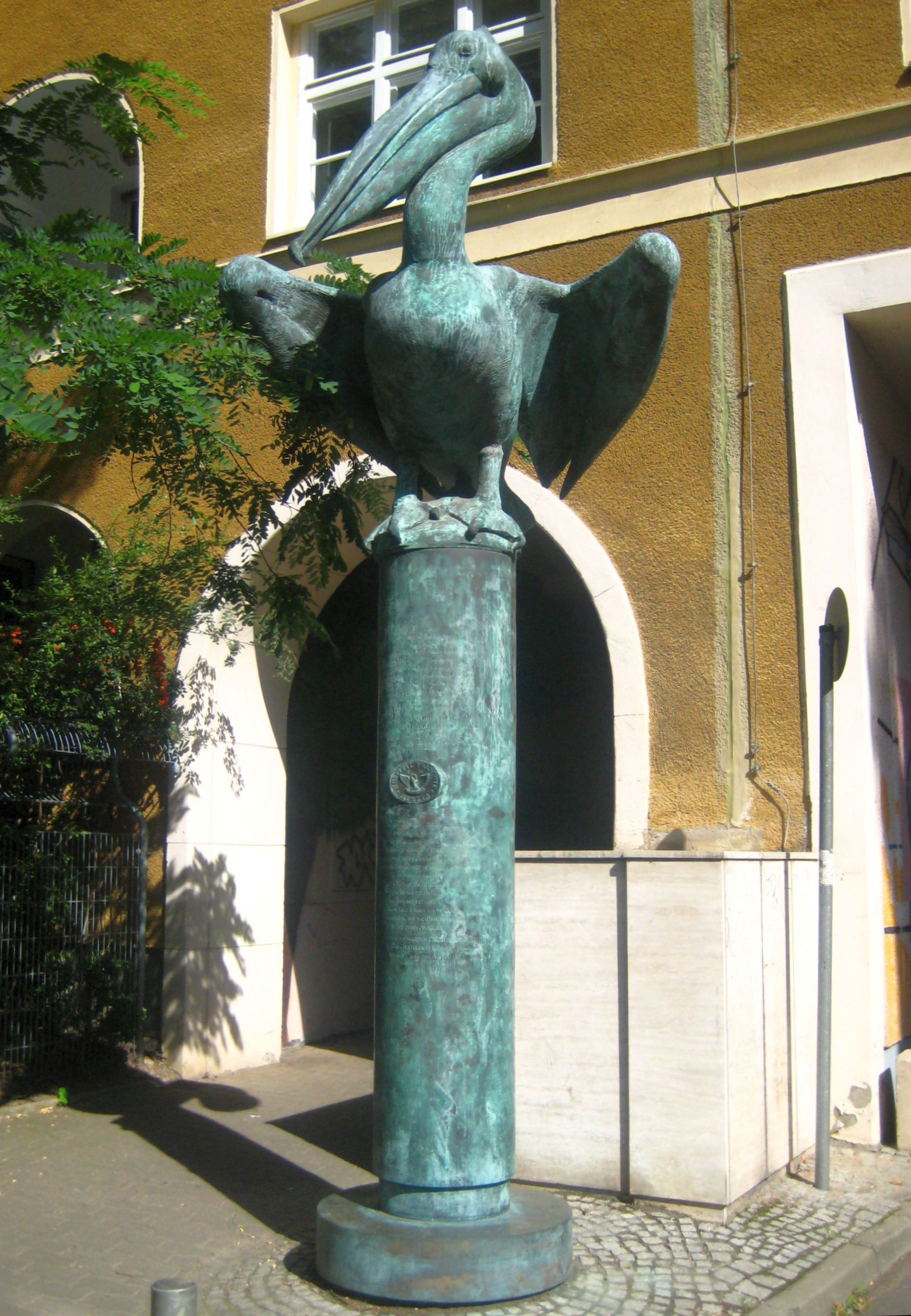 "Hugenots-Pelican", Claire-Waldoff-Straße, Berlin-Mitte. The bronze sculpture by Michael Klein commemorates the signing of the Edict of Potsdam on October 29, 1685, and the subsequent admission of 5000 Hugenot refugees to Prussia. The sculpture stands at the former compound of the French Hospital of Berlin. It was installed in 1994 on the occasion of the anniversary of the Edict of Potsdam. The pelican is said to be a bird which takes especially good care of its offspring; the sculpture therefore symbolizes the freedom from persecution the Hugenots found in Prussia.